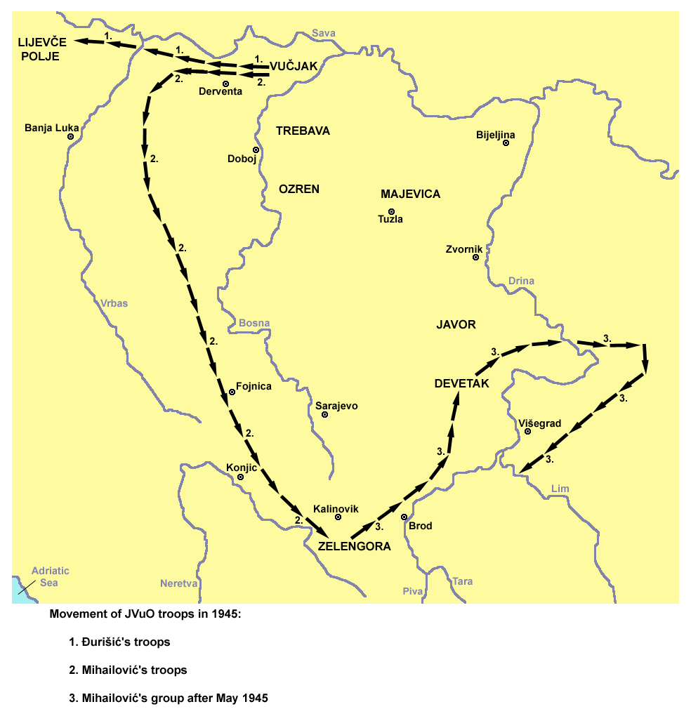 Movement of JVuO troops in 1945.